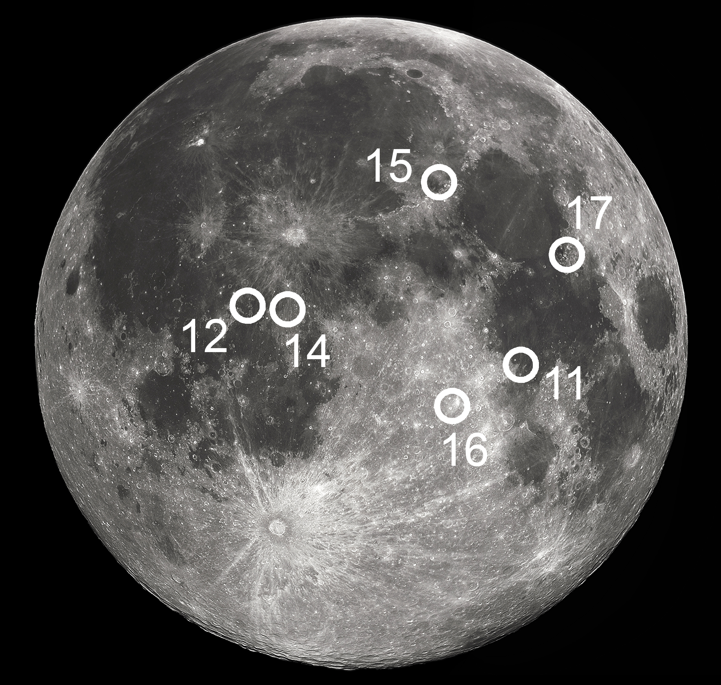 Landing sites for Apollo Moon missions (Apollo 13 was intended to land in the Fra Mauro area, the same area as Apollo 14)